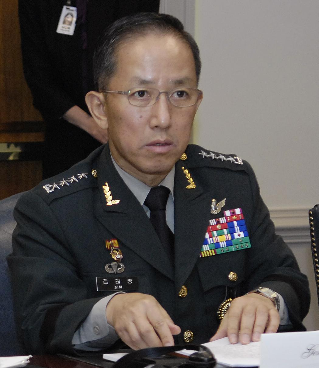 General Kim Tae-Young(김태영), Republic of Korea Chairman of the Joint Chiefs of Staff, listens to a translation during a meeting to discuss bilateral issues with Secretary of Defense Robert M. Gates in the Pentagon Oct. 17, 2008.